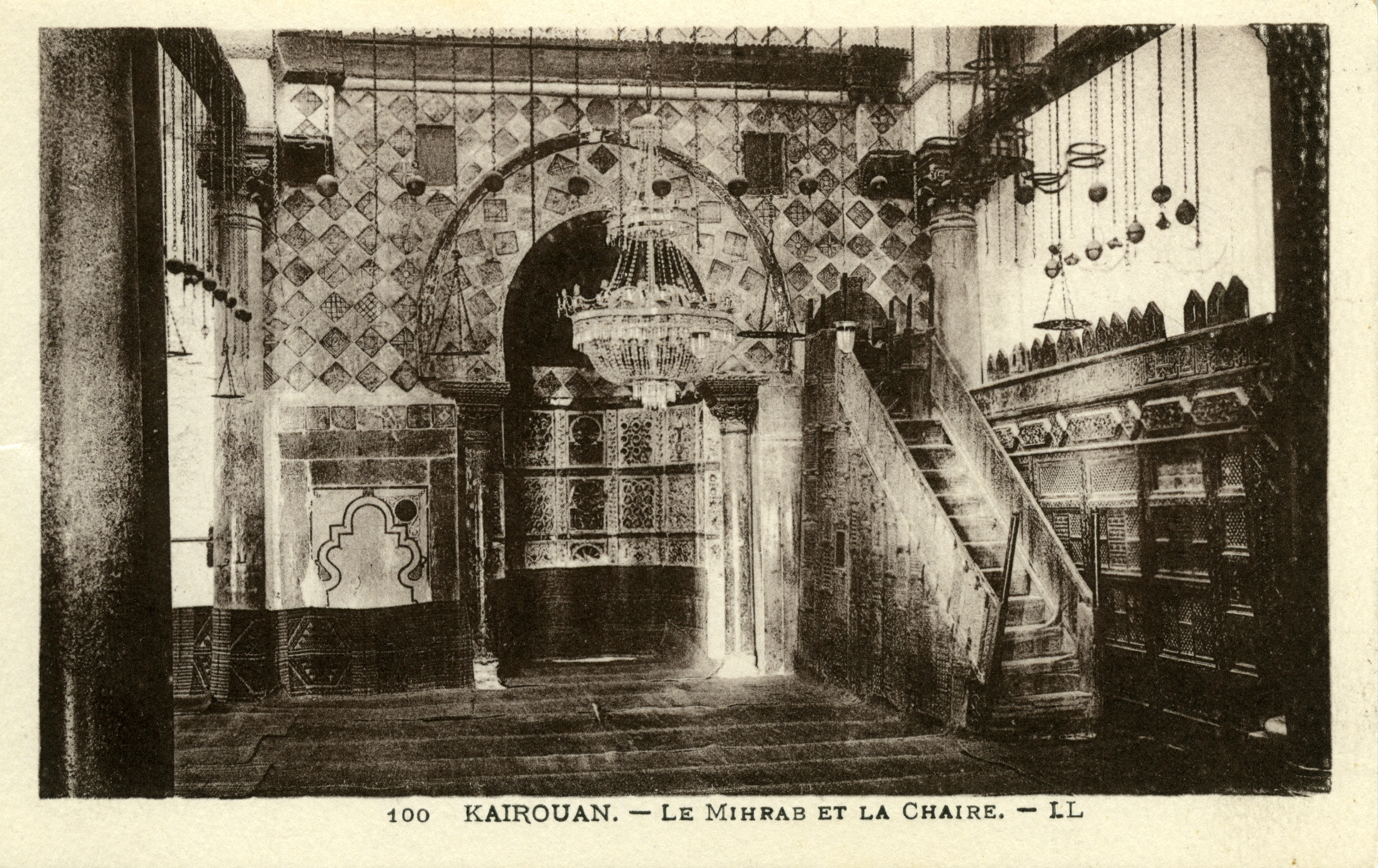 Mihrab, minbar, and maqsura (right) in the Prayer hall—Great Mosque of Kairouan, Tunisia.